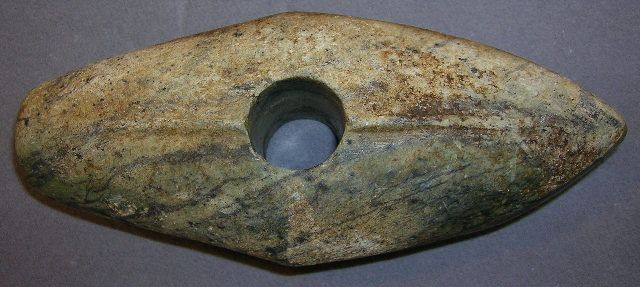 Socalled «battle-axe» (Streitaxe) or boat axe of Swedish-Norwegian type-(Corded Ware culture), 2800-2400 BC. Discovered the summer of 2003 by a Danish tourist (fisher) at the river of Eiterå, Dunderland, in Rana municipality, Nordland, Norway. Handed over to the cultural department of Rana Museum on 1 July 2004. Photo 21 May 2007 with a NIKON Coolpix 5600 5,1 Megapixel camera. (The Corded Ware culture has a core date of 3200 to 2300 BC, and localized dates of 3200/2900 to 2300/1800 BC)